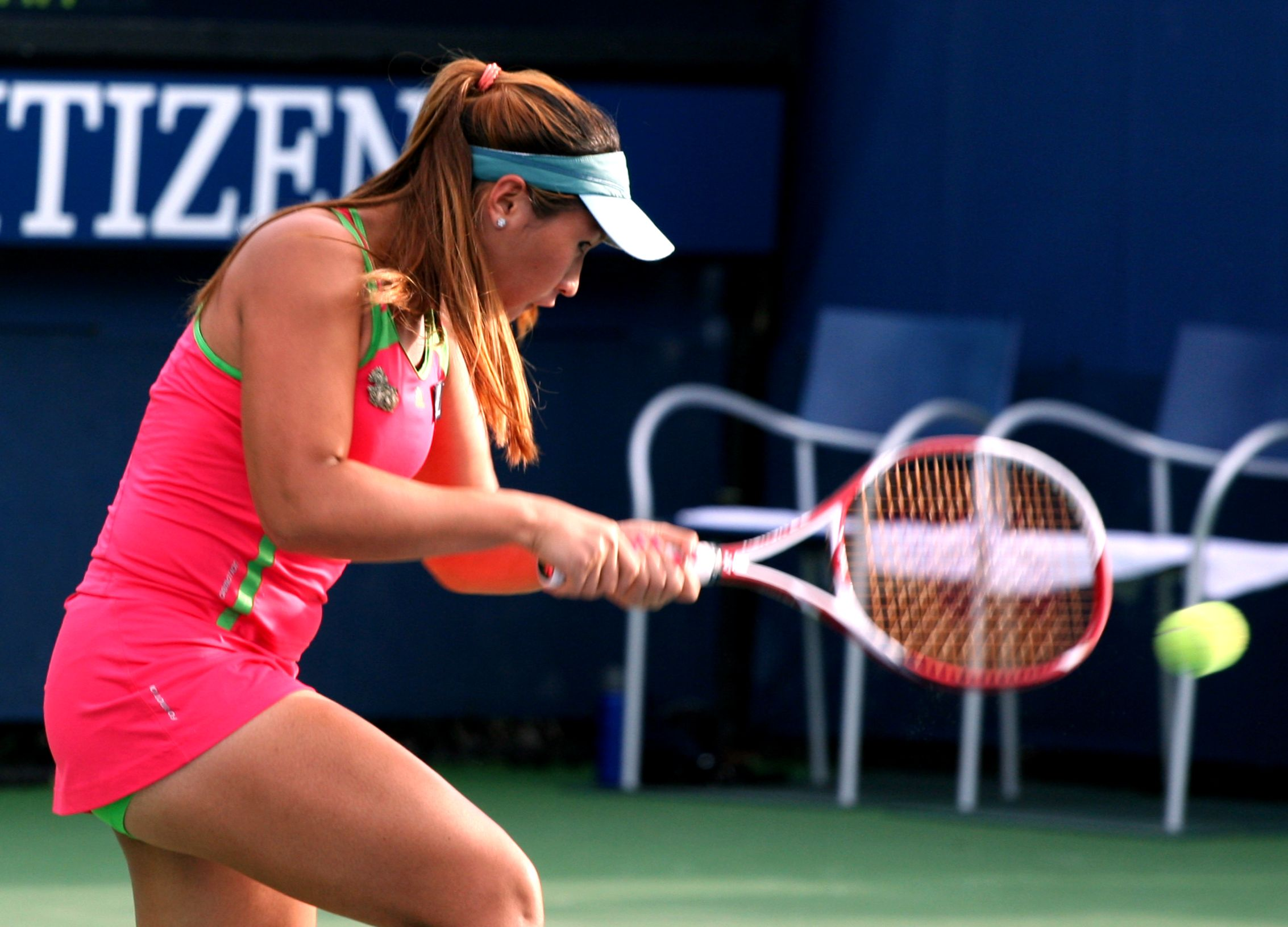 Noppawan Lertcheewakarn at the 2011 U.S. Open Monday, Aug. 29, 2011